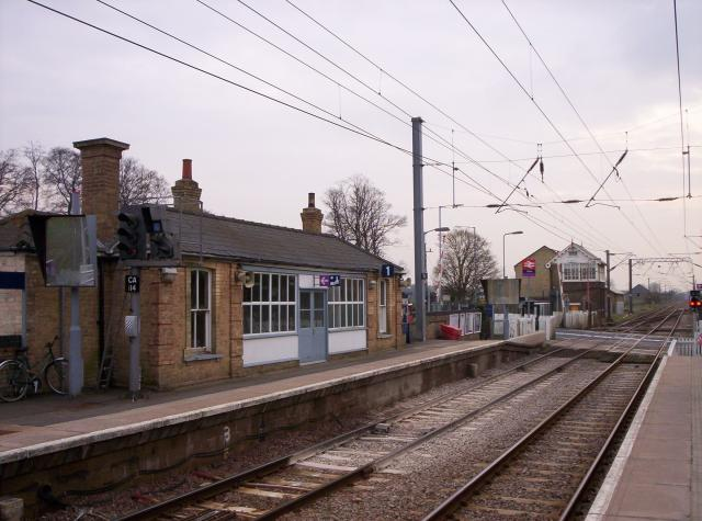 Foxton station, looking towards King's Cross.